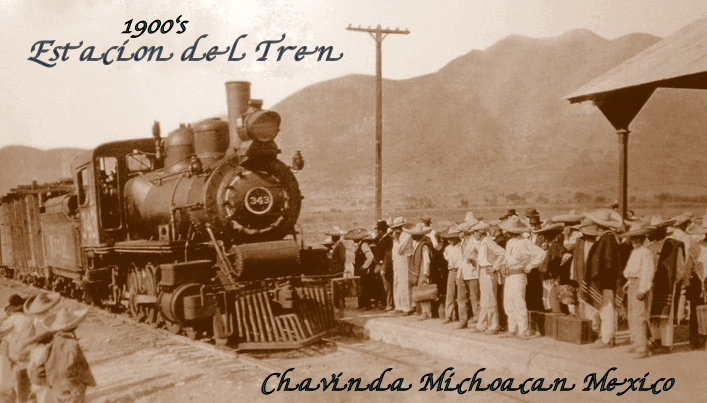 Chavinda, Michoacan, Mexico, outdoor train station circa 1900 with passengers waiting near a covered area